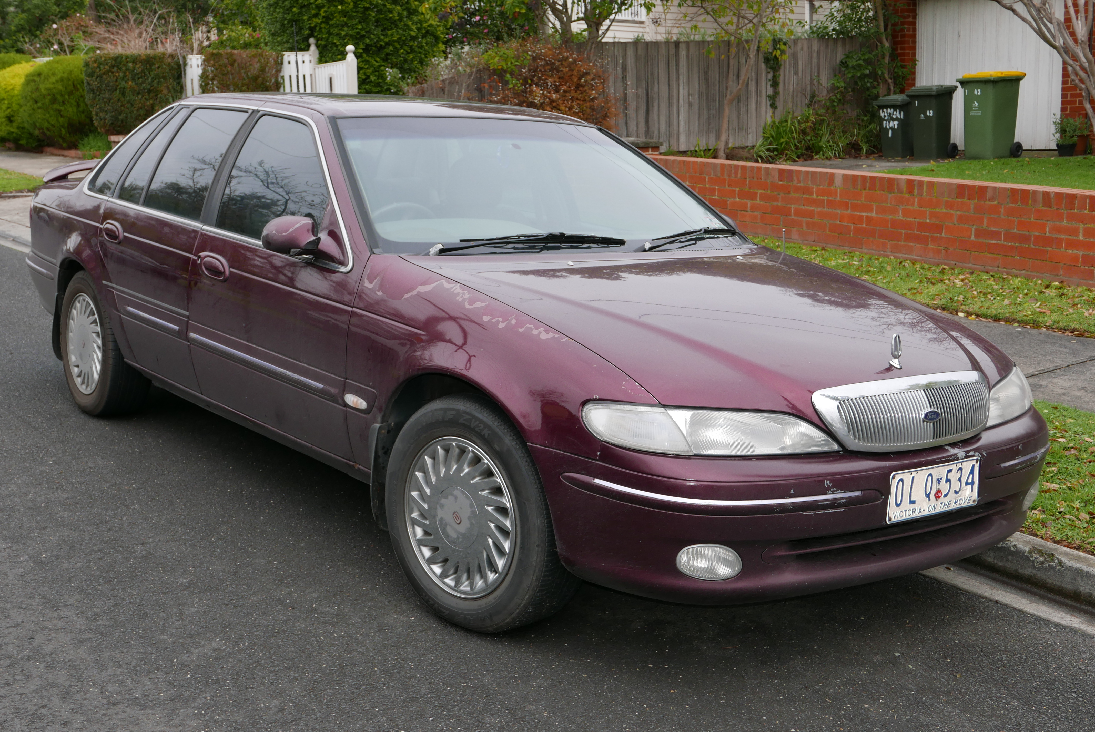 1997 Ford LTD (DL) sedan. Photographed in Ivanhoe, Victoria, Australia. Vehicle registration enquiry results Jurisdiction Victoria Registration OLQ534 Chassis code 6FPAAAJGLWVB42395 Engine code JGLWVB42395 Compliance date 1997-04 Year of manufacture 1997